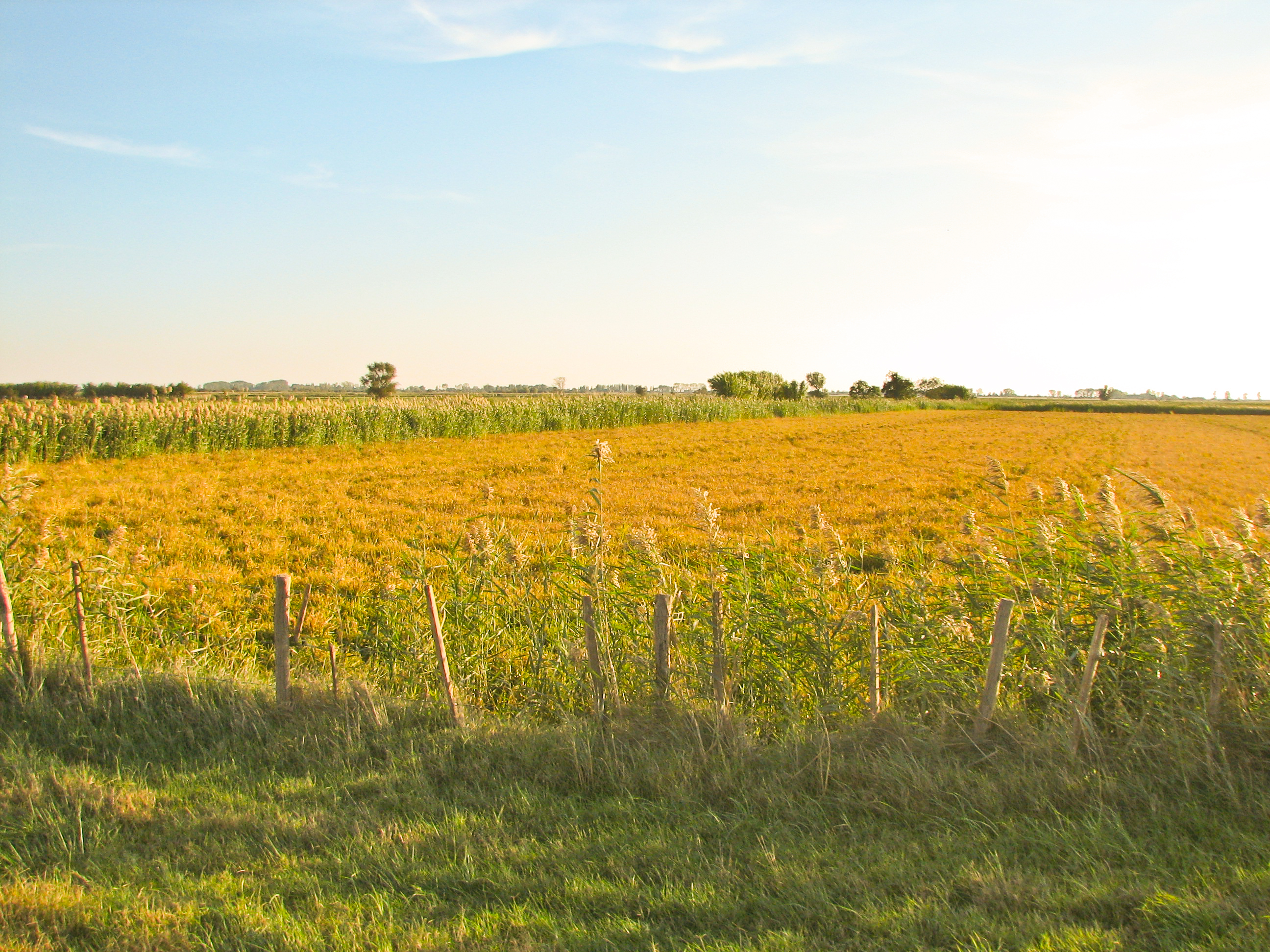 Camargue landscape east of Arles, France